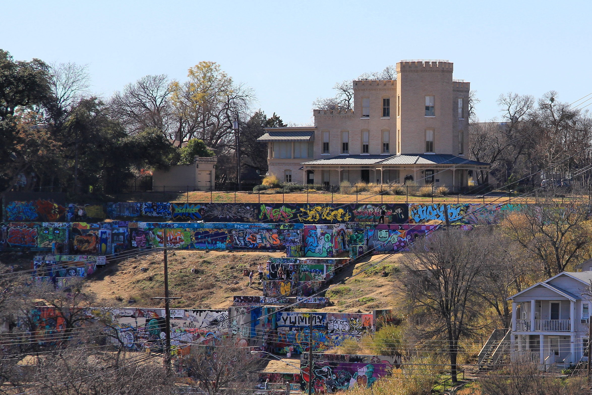 The former Texas Military Institute Academy building 1111 West 11th Street, in Austin, Texas, United States. It is the oldest educational building still standing in Texas. The castle on the hill was designated a Recorded Texas Historic Landmark in 1962. Also shown are the Castle Hill Graffiti Walls also known as the Hope Outdoor Gallery and The Foundation.